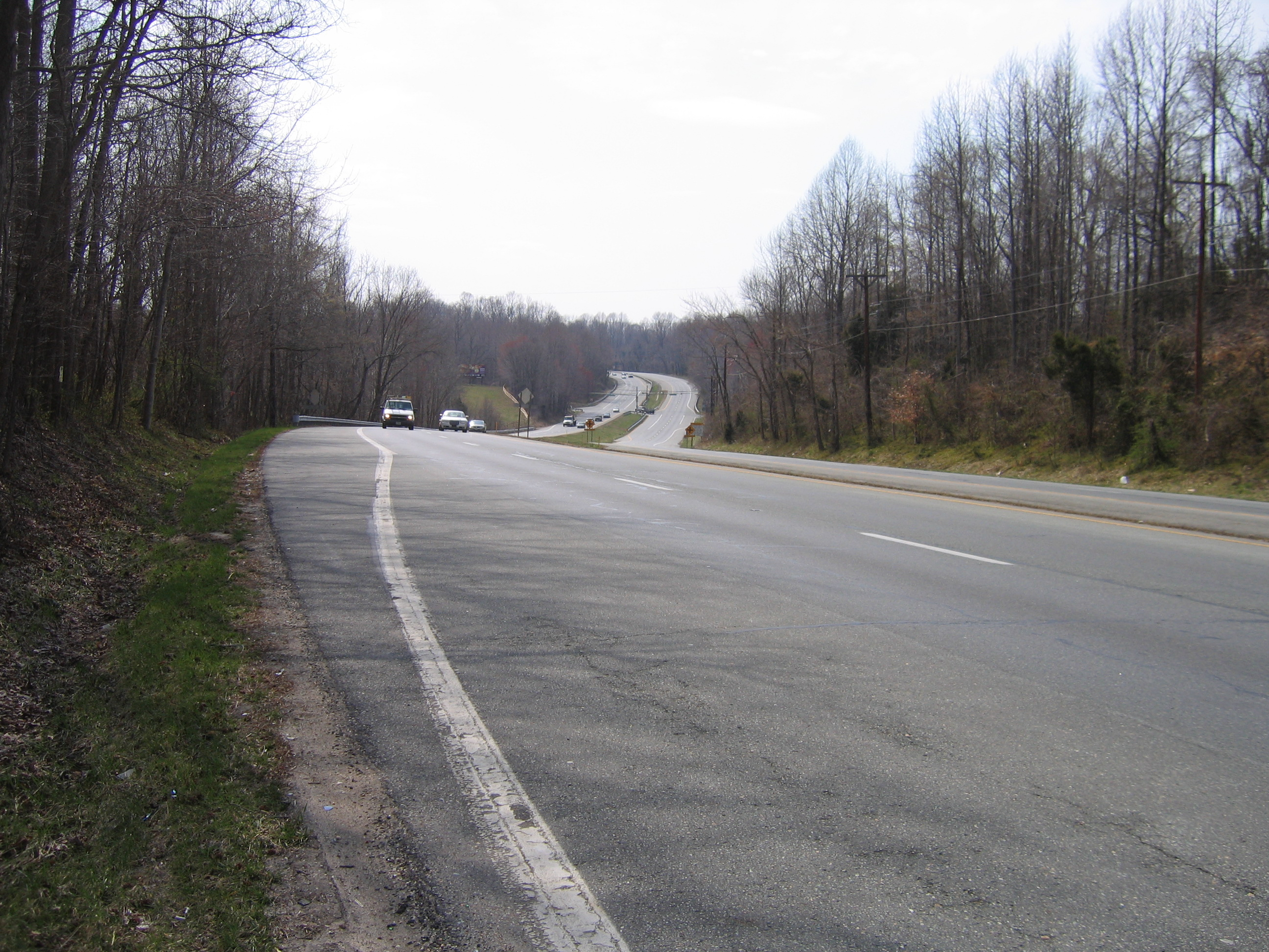 US 301 at Chew Road in Prince George's County, Maryland, USA, looking southbound. Note that this image was taken for engineering purposes, therefore what is shown in the image may not represent existing conditions.